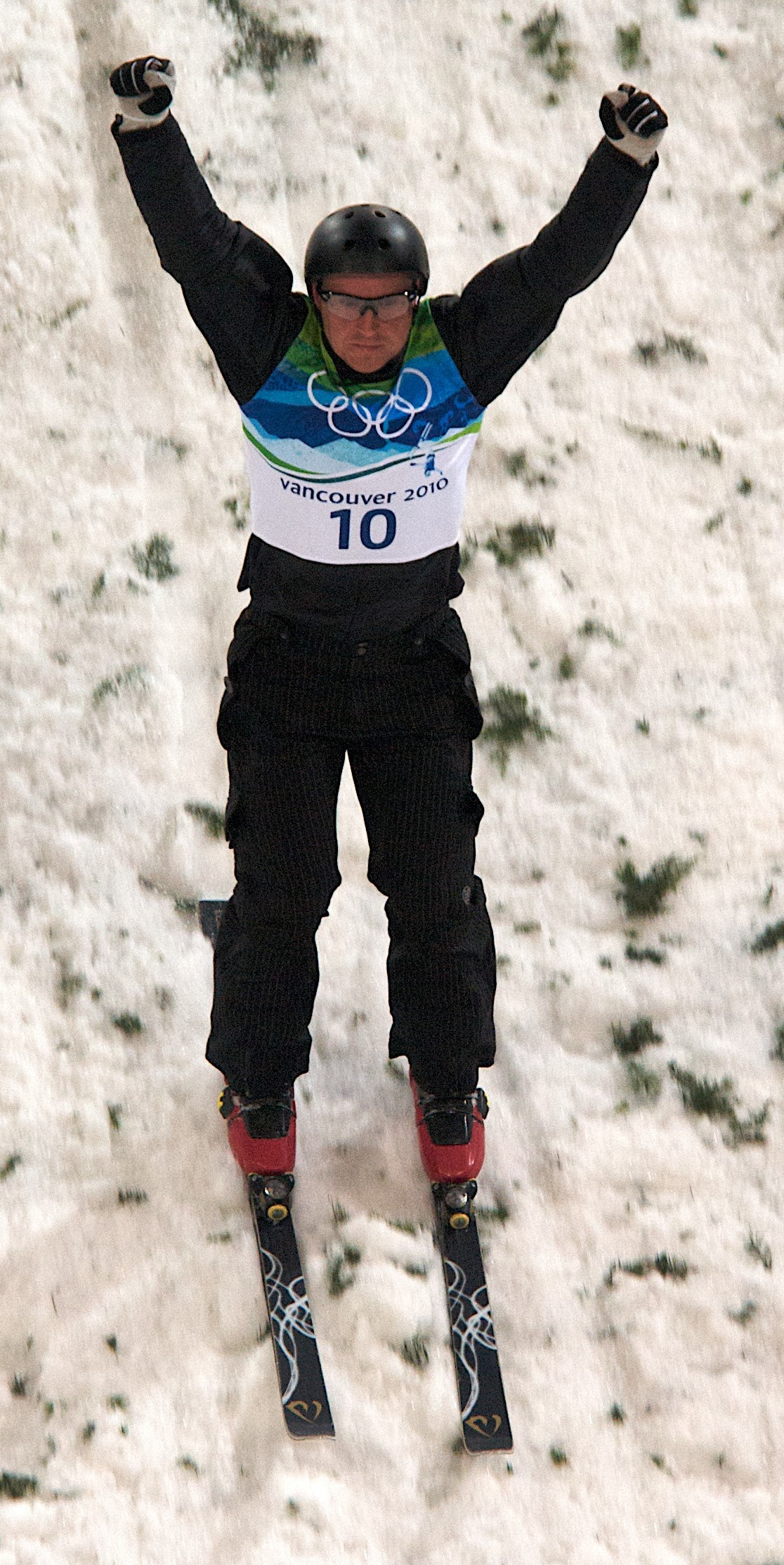 Results: 1. Belarus. GRISHIN Alexei (Tenth seed number in the protocol event) 2. United States. PETERSON Jeret 3. China. LIU Zhongqing